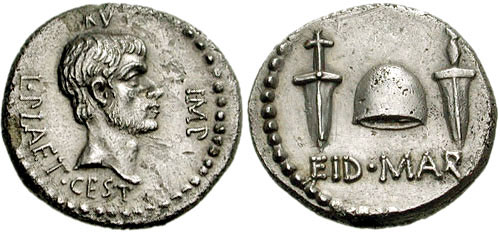 Transferred from nl.wikipedia to Commons. The original description page was here. All following user names refer to nl.wikipedia.